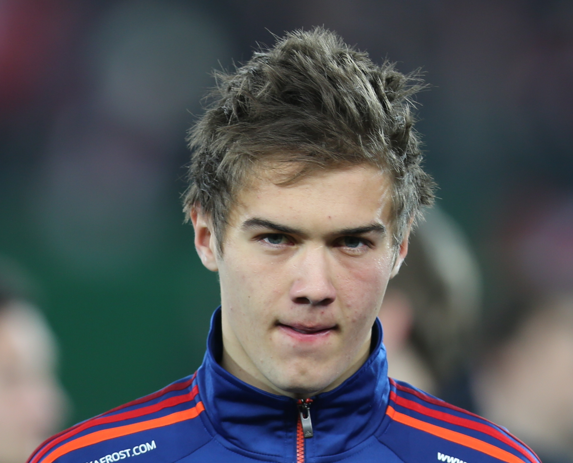 2014 FIFA World Cup qualification (UEFA), Group C: Austrian national football team vs. Faroer Islands national football team (6:0) at 22. March 2013 (0:6) in the Ernst-Happel-Stadion in Vienna. Here: Hallur Hansson, midfielder of the Faroe Islands. The making of this work was supported by Wikimedia Austria. For other files made with the support of Wikimedia Austria, please see the category Supported by Wikimedia Österreich.